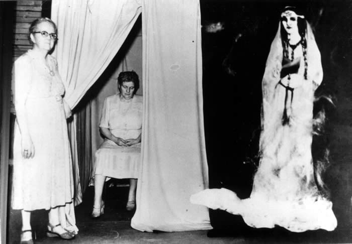 Photograph of the spirit Silver Belle with the medium Ethel Post-Parrish. The spirit in the photograph was revealed to be fake.